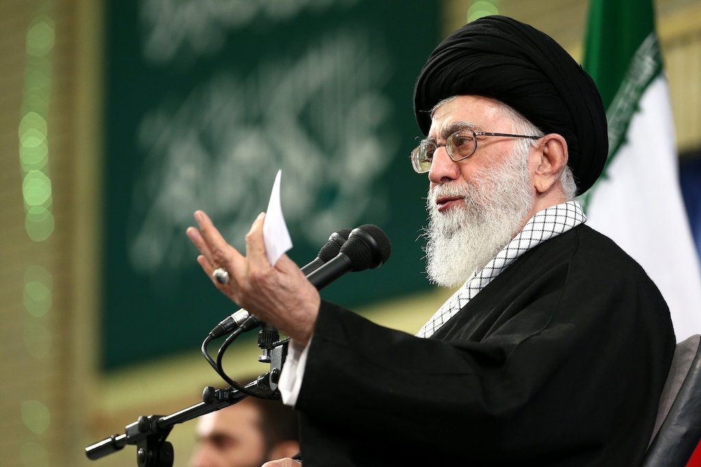 Ali Khamenei speeching for Iranian Air Force personnel.